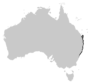 Distribution of the Wallum Froglet (Crinia tinnula) along the east coast of Australia.